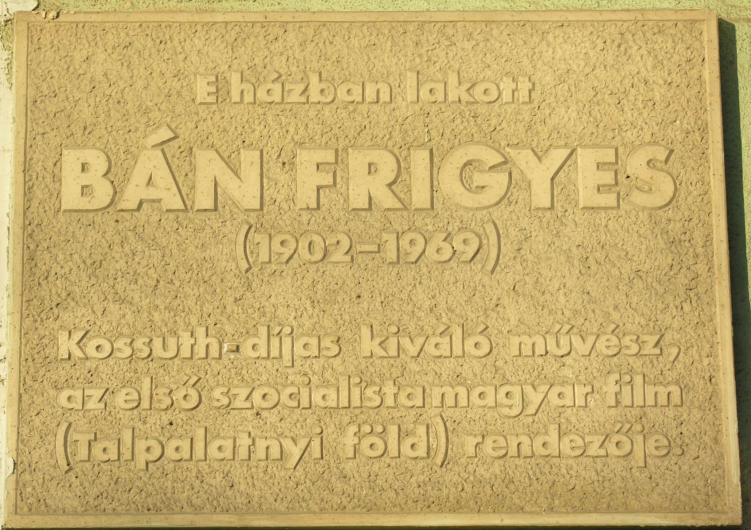 Commemorative plaque of Frigyes Bán, Budapest District XIV, Róna Street No 171